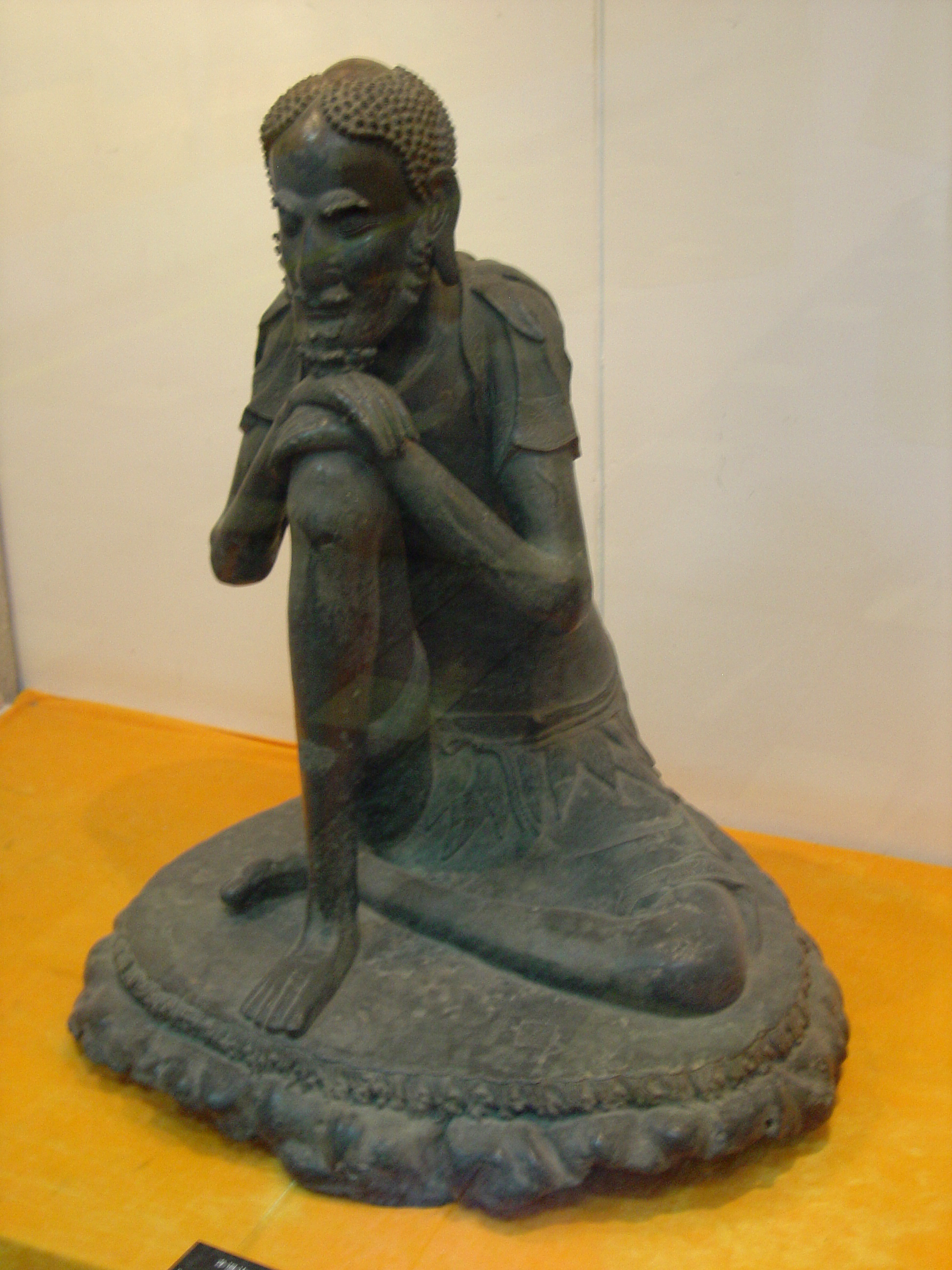 Bodhidharma. Qing Dynasty. City Museum, Luoyang. This bronze sculpture portrays an artist's conception of Bodhidharma, an Indian monk who emigrated to China in the 6th century AD and subsequently founded the Chan (Zen) school of Buddhism.